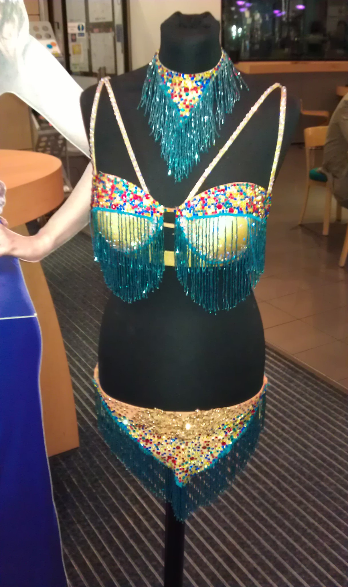 Dress worn by Aliona Vilani on Strictly Come Dancing in 2010. Displayed at BBC Television Centre, Birmingham